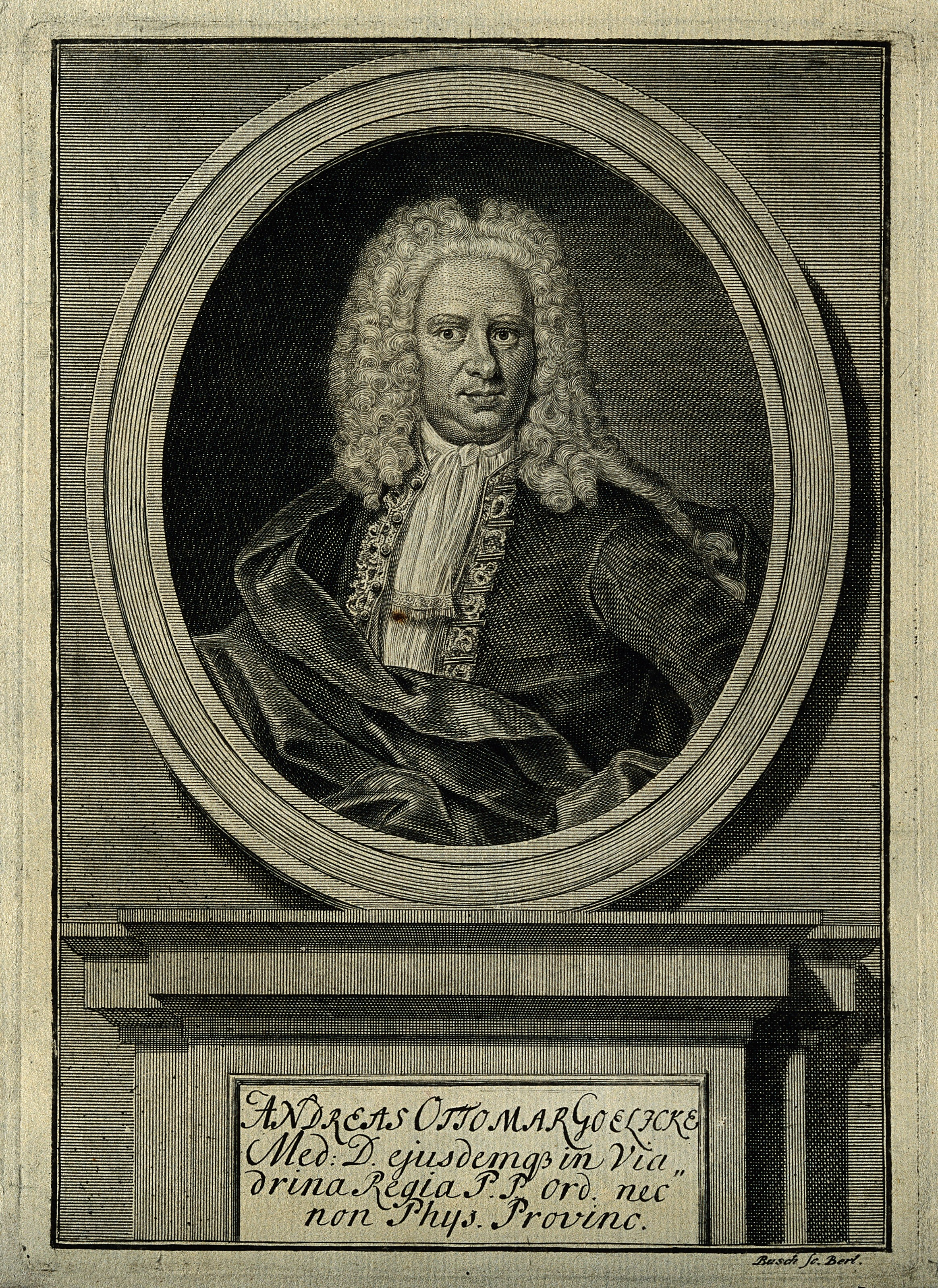 Andreas Ottomar Goelicke. Line engraving by G. P. Busch. Iconographic Collections Keywords: portrait prints; engravings; G. P. Busch; Andreas Ottomar Goelicke